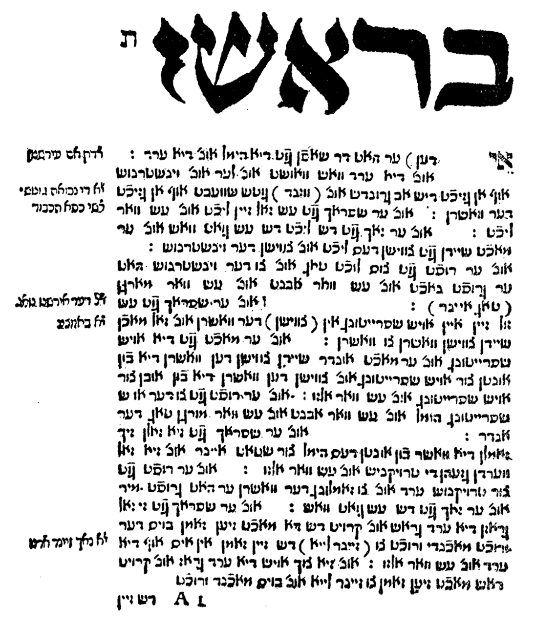 First page of the Constance 1544 Pentateuch translation as reproduced in Max Weinreich's "Shtaplen" (Berlin, 1923, p. 101)ייִדיש: ערשטע זייט פון דער קאָנסטאַנצער חומש־איבערזעצונג (קאָנסצאַנץ 1544), רעפּראָדוצירט אין מאַקס וויינרייכס "שטאַפּלען" (בערלין, 1923, ז. 101)